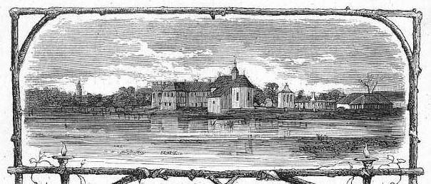 Ostrogski Castle in Starokostiantyniv.